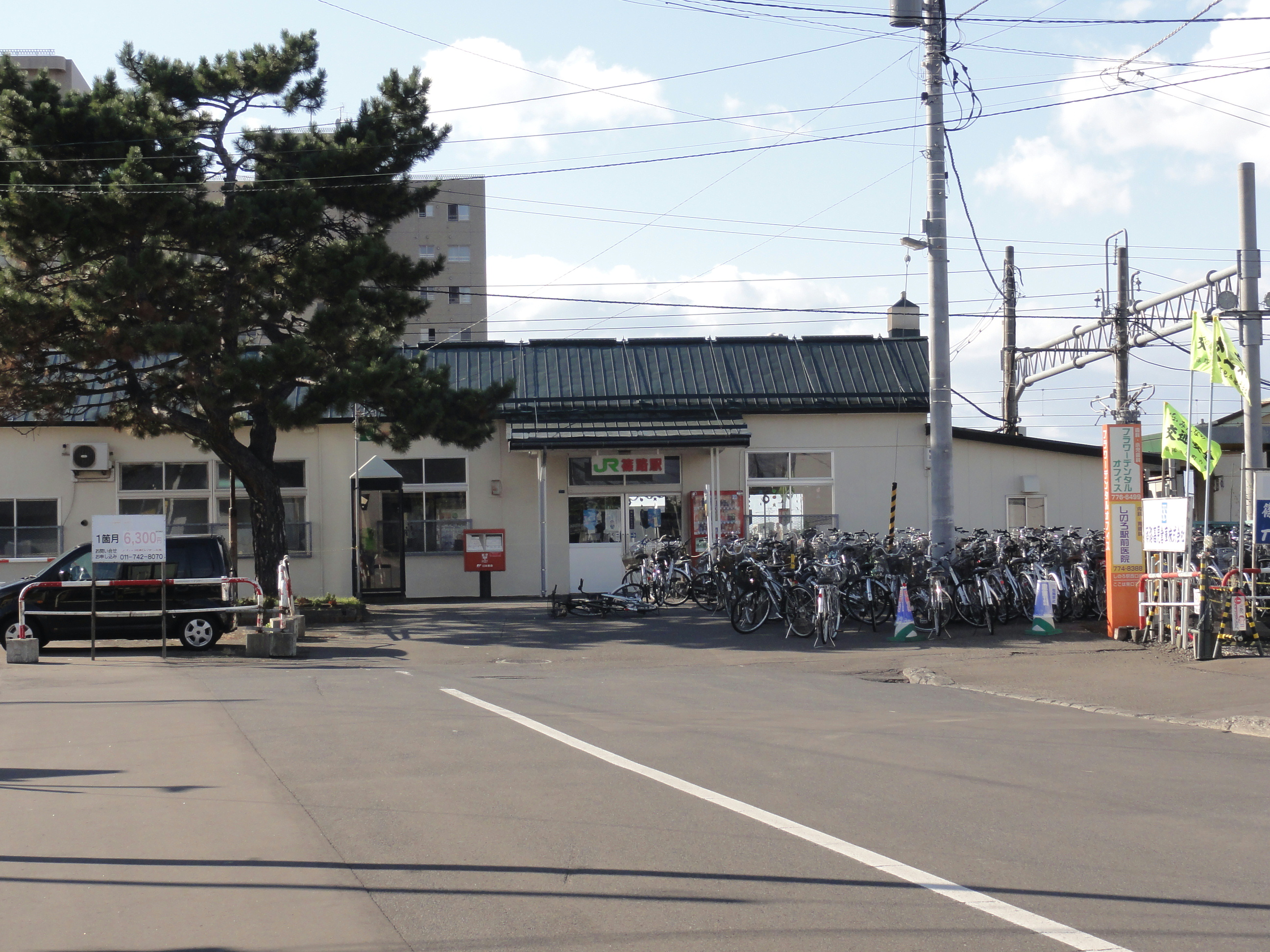 East entrance of Shinoro Station on the Sasshō Line (Kita-ku, Sapporo, Hokkaido)